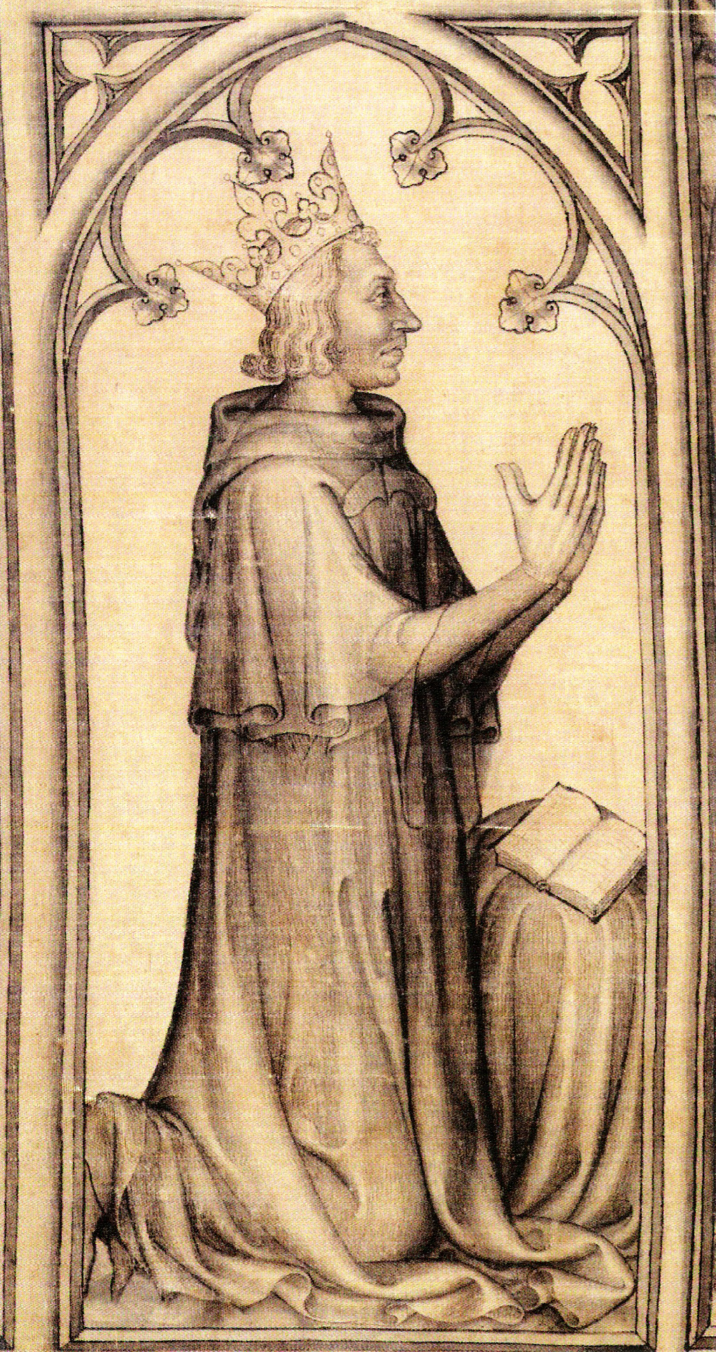 Charles V of France